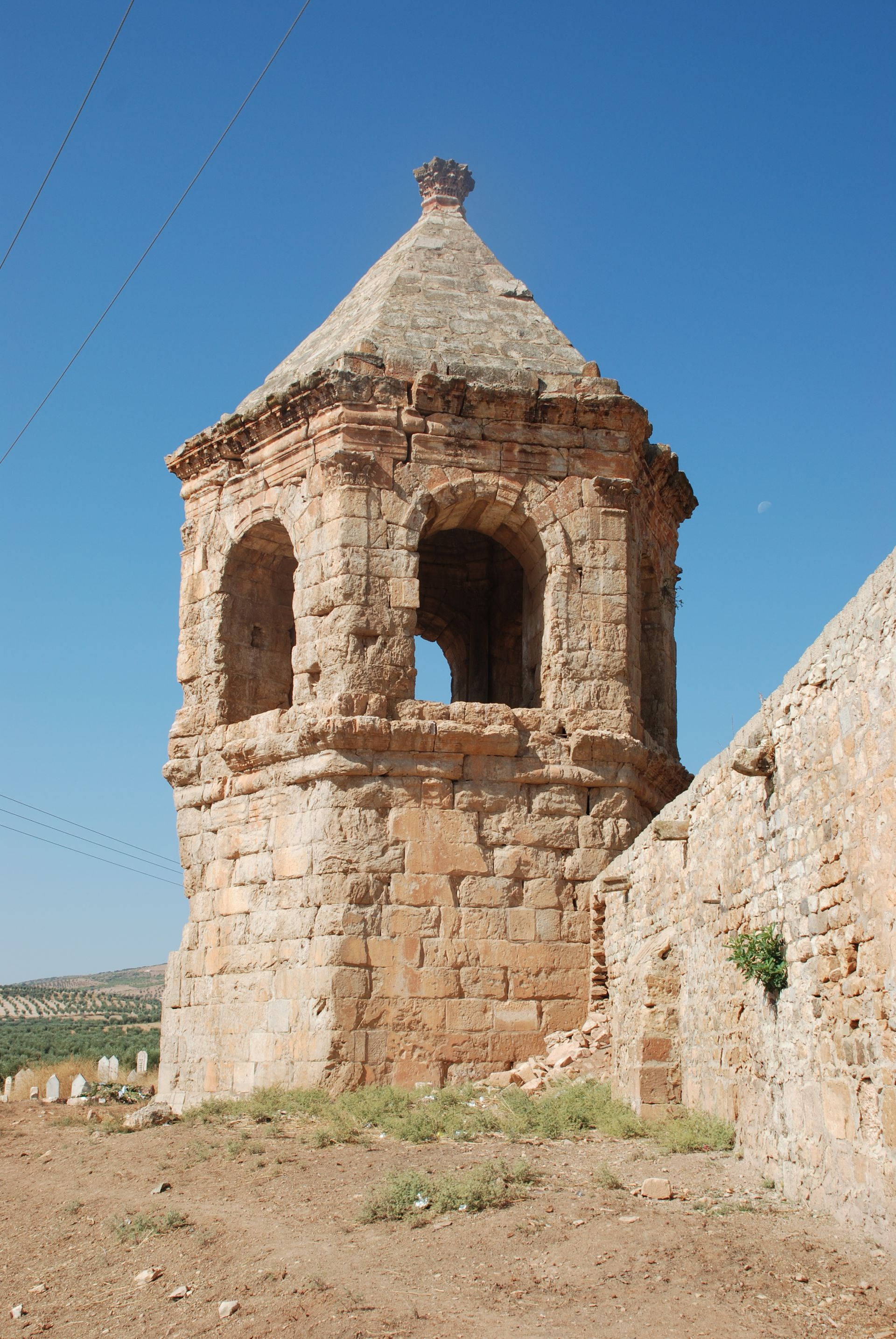 Mausoleum of Nebi Huri, Kyrrhos, Syria